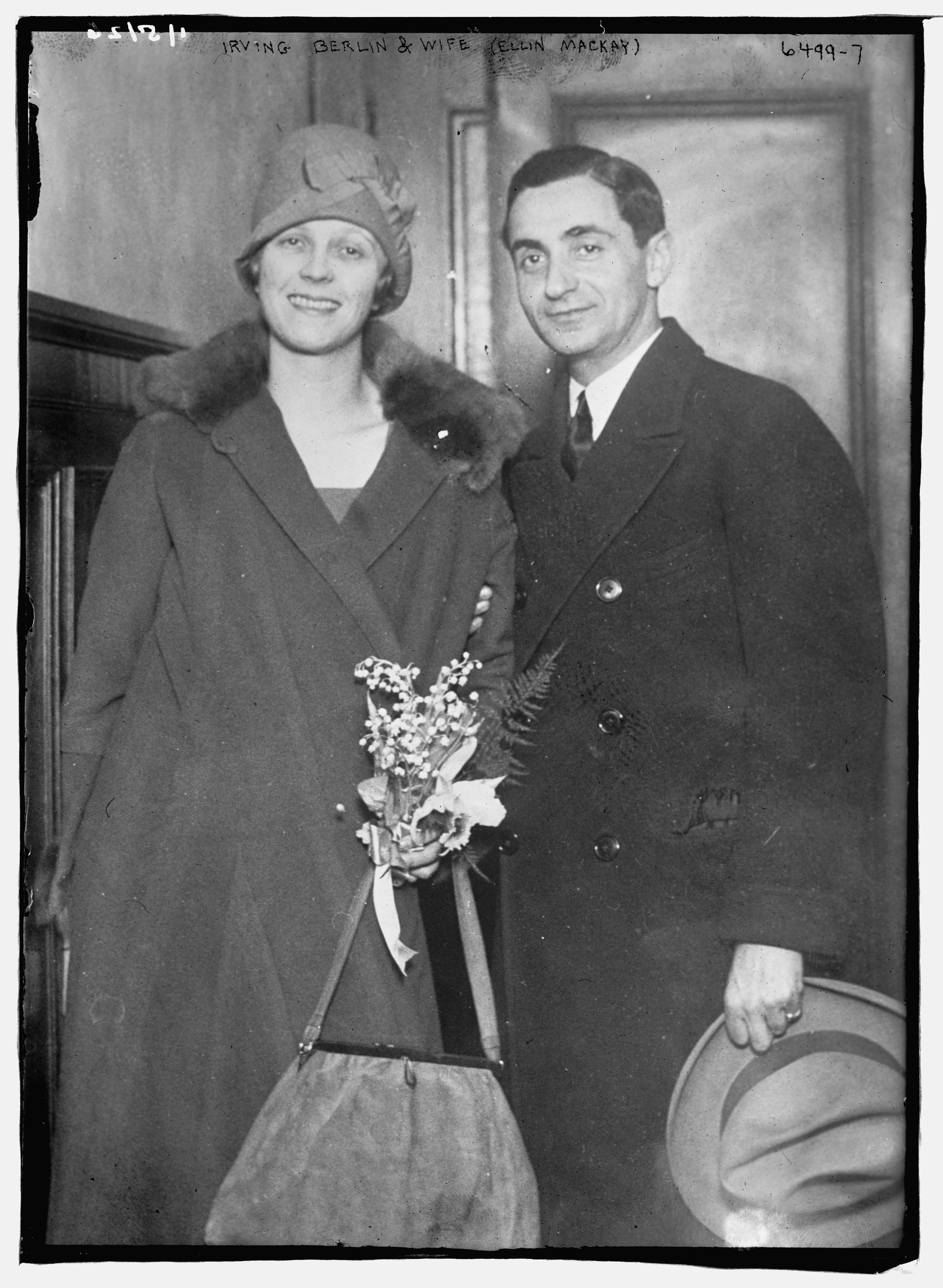 Title: Irving Berlin & wife (Ellen Mackay) Abstract/medium: 1 negative : glass ; 5 x 7 in. or smaller.